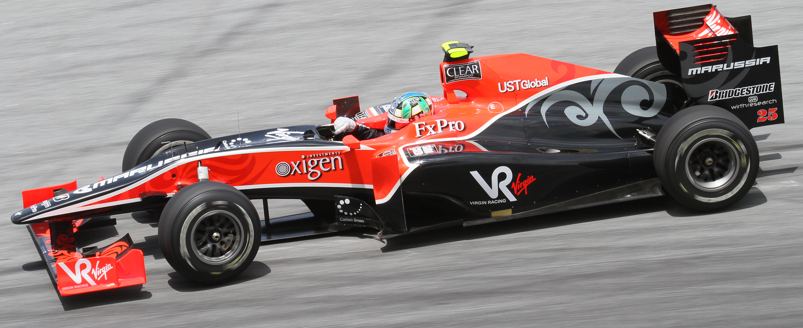 Formula One 2010 Rd.3 Malaysian GP: Lucas Di Grassi (Virgin) during Friday 2nd Free Practice session.